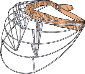 Bustle